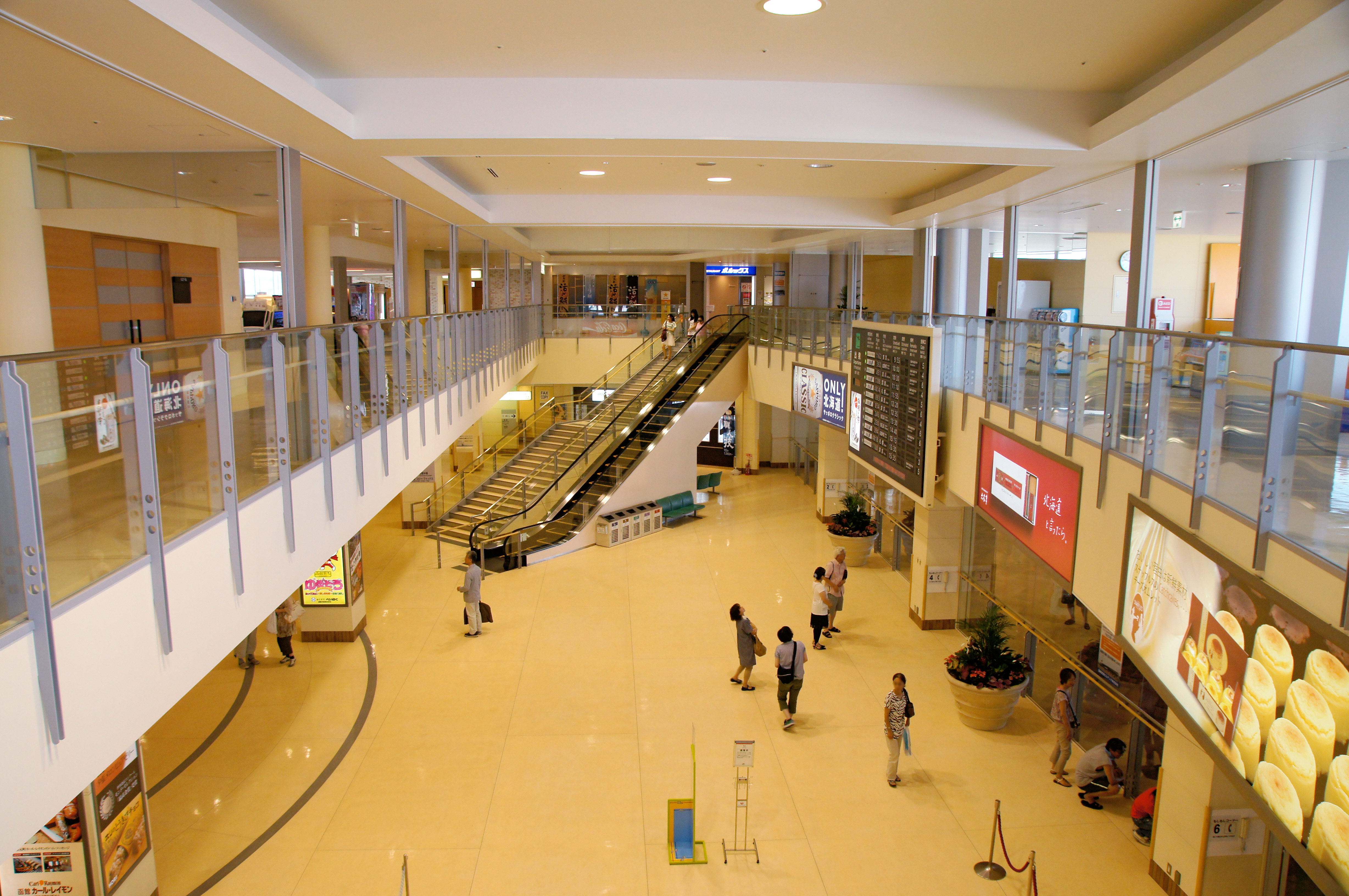 Hakodate Airport in Hakodate, Hokkaido prefecture, Japan